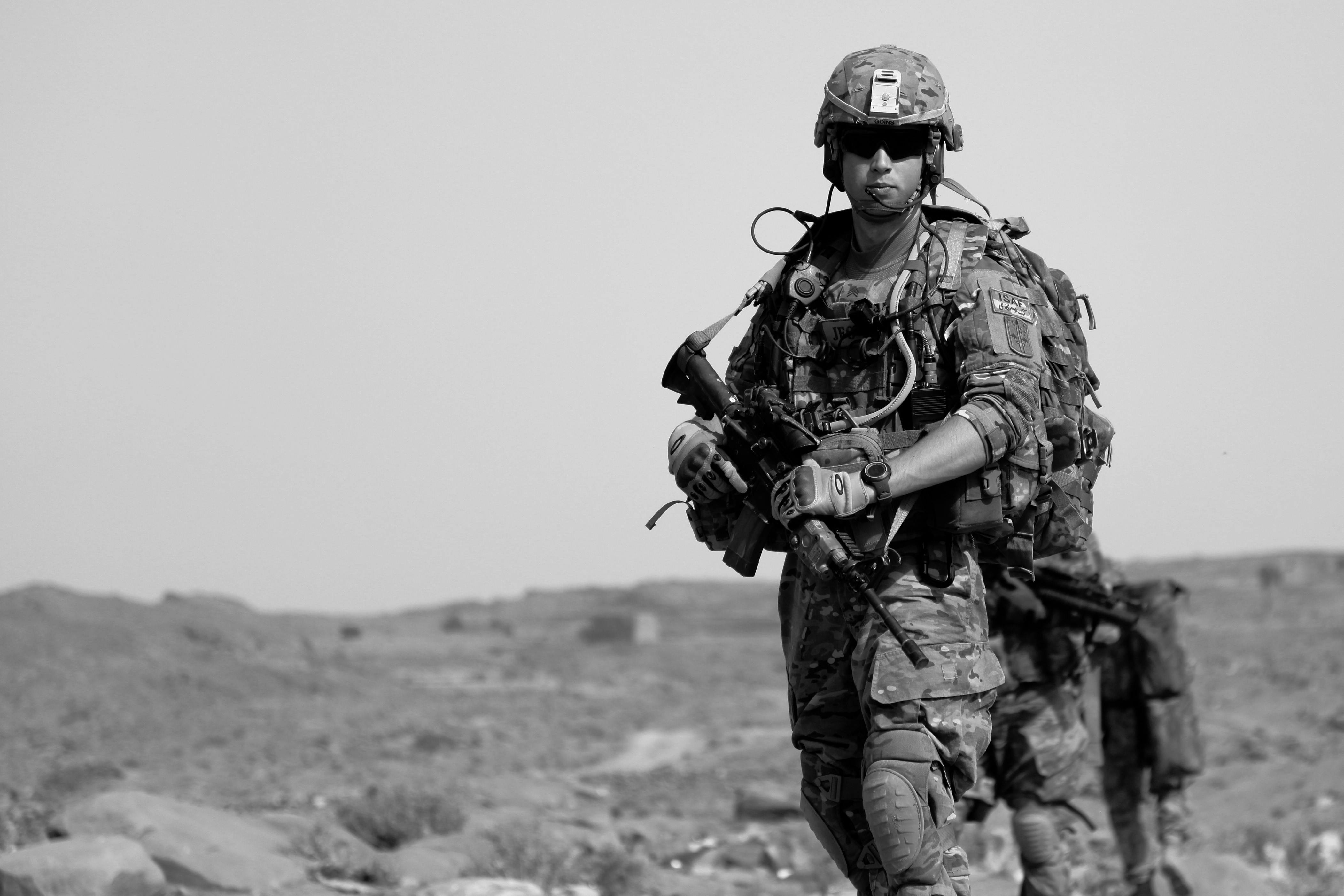 A Joint Tactical air controller assigned to Apache Company, 3rd Battlion, 66th Infantry Regiment, 172nd Infantry Brigade, pauses while conducting a dismounted patrol to the village of Sar Howza, Paktika province, Afghanistan. JTAC service members serve as the link between the infantrymen of the Army and the Air Force pilots prowling the skies above the battlefield.